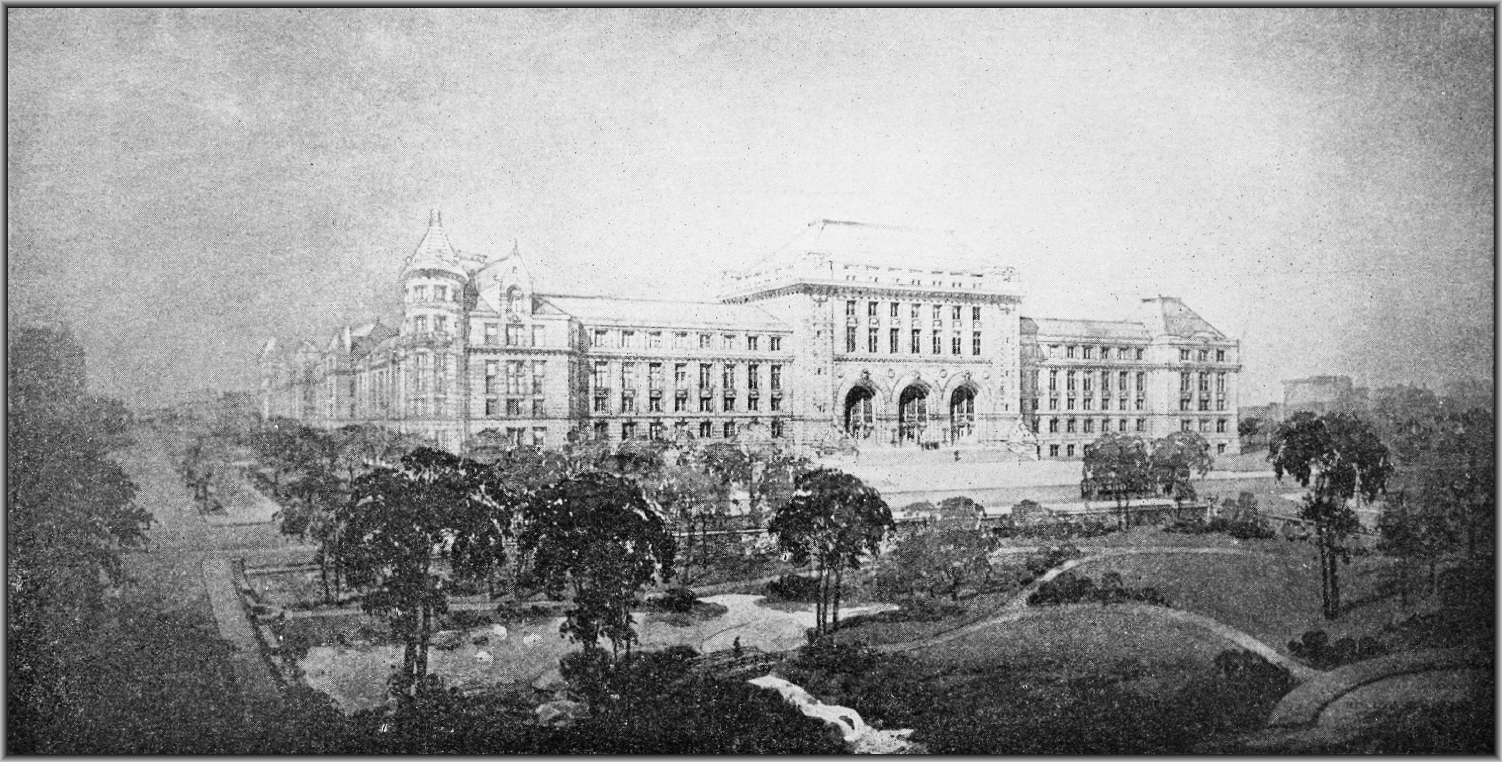 Design of the American Museum of Natural history